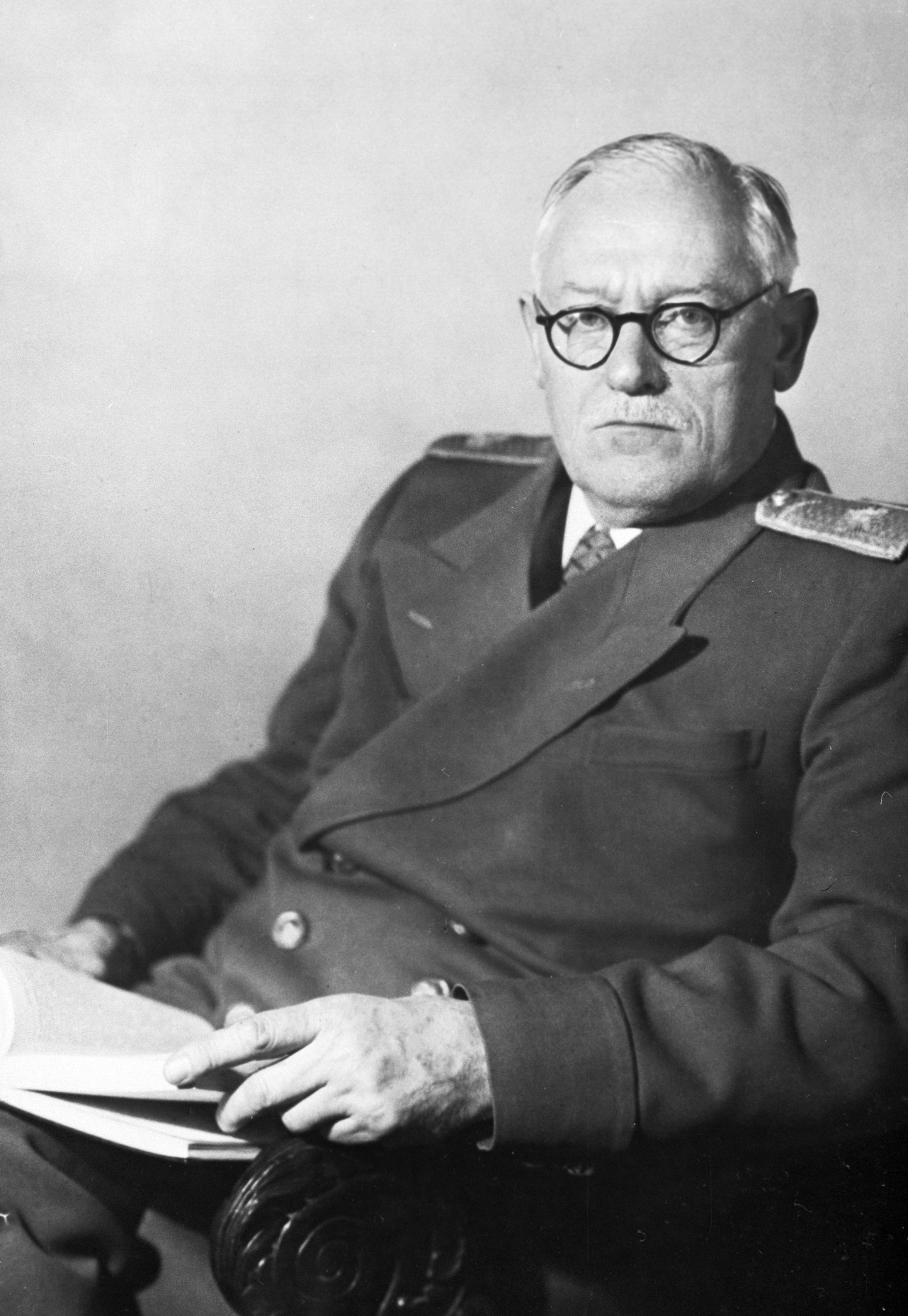 “Vyshinsky”. Soviet lawyer, diplomat, academician A. Ya. Vyshinsky (1883-1954).